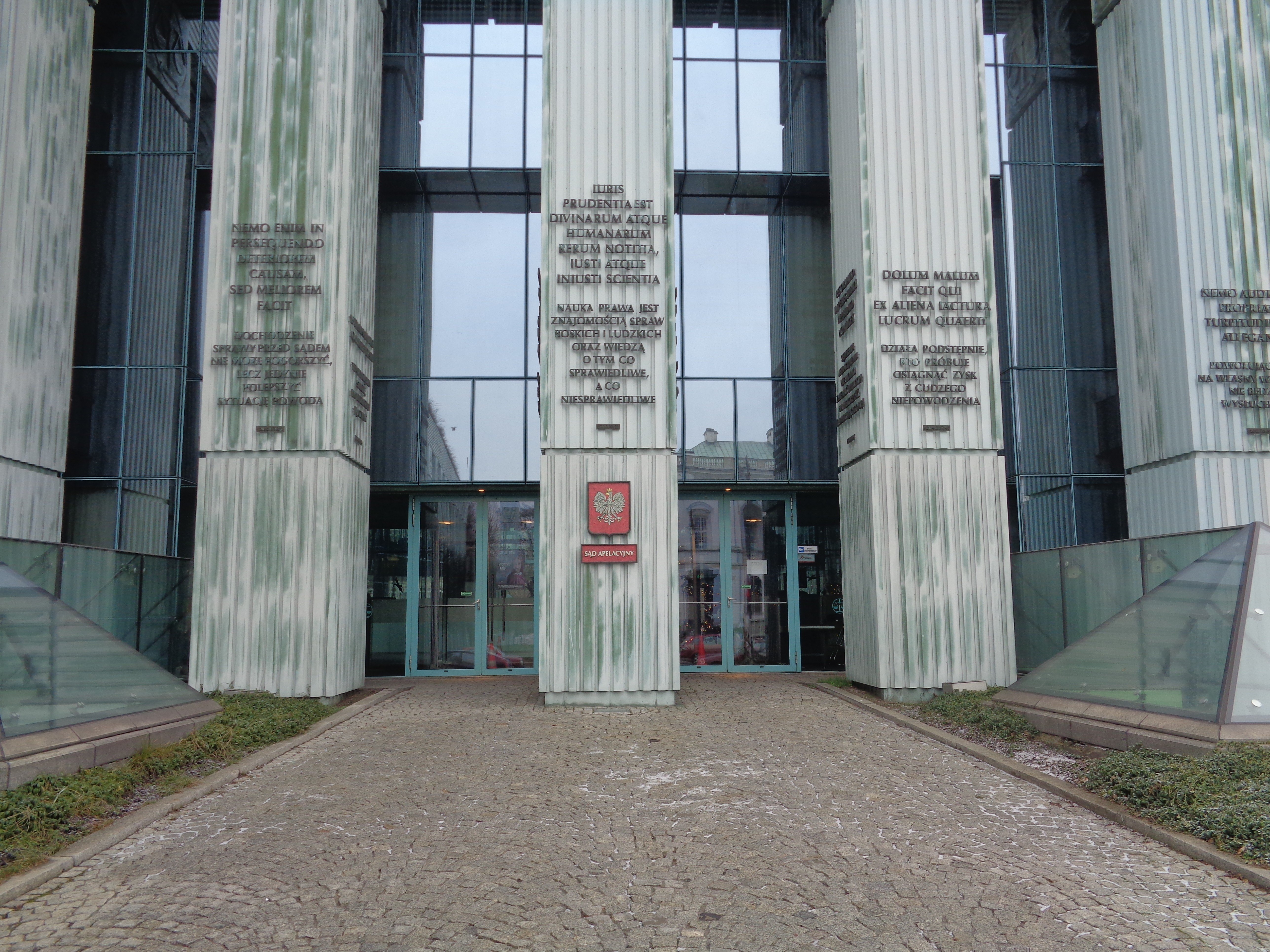 Enter of Highest Court of Poland in Warsaw.